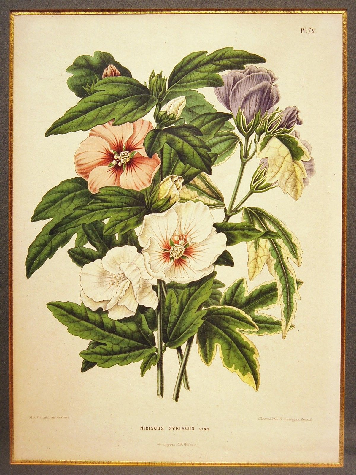 Abraham Jacobus Wendel: Hibiscus syriacus Linn. Chromolithograph G.B. Severijns Brussels. Groningen, J.B. Wolters. "Pl. 7.2."